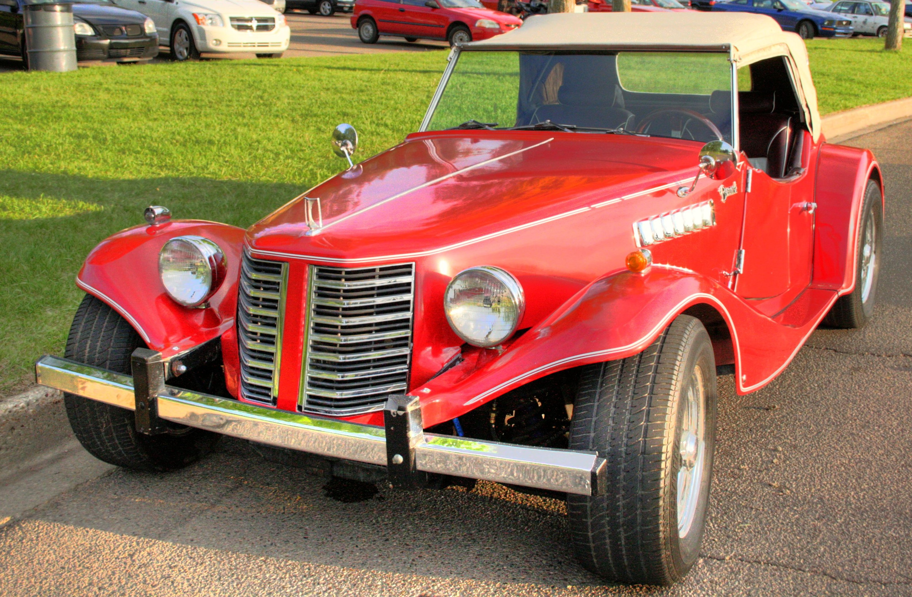 A Blakely Bernardi automobile.